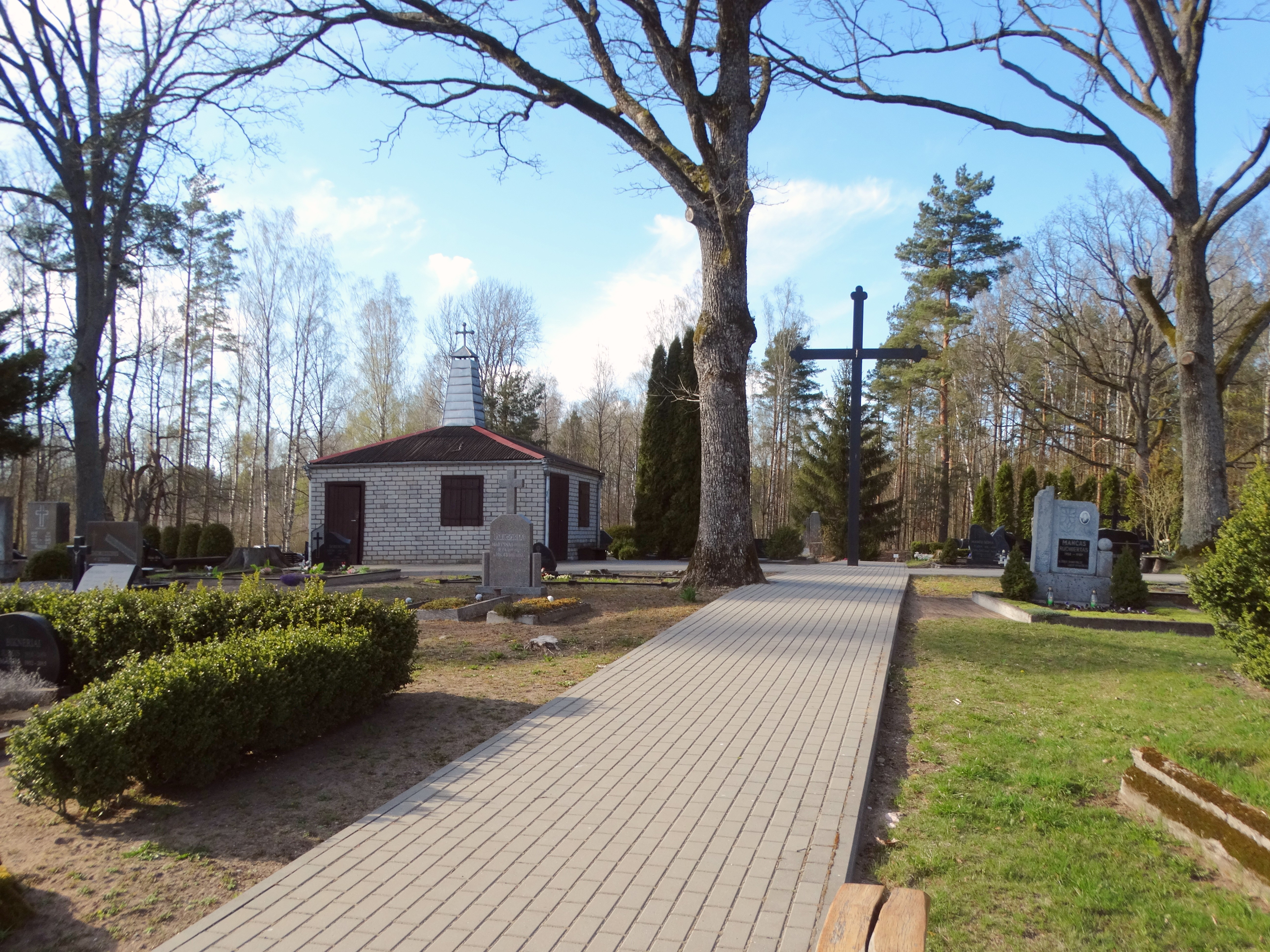 Staiginė, cemetery, Tauragė district, Lithuania